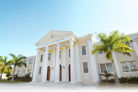 COB Front Entrance